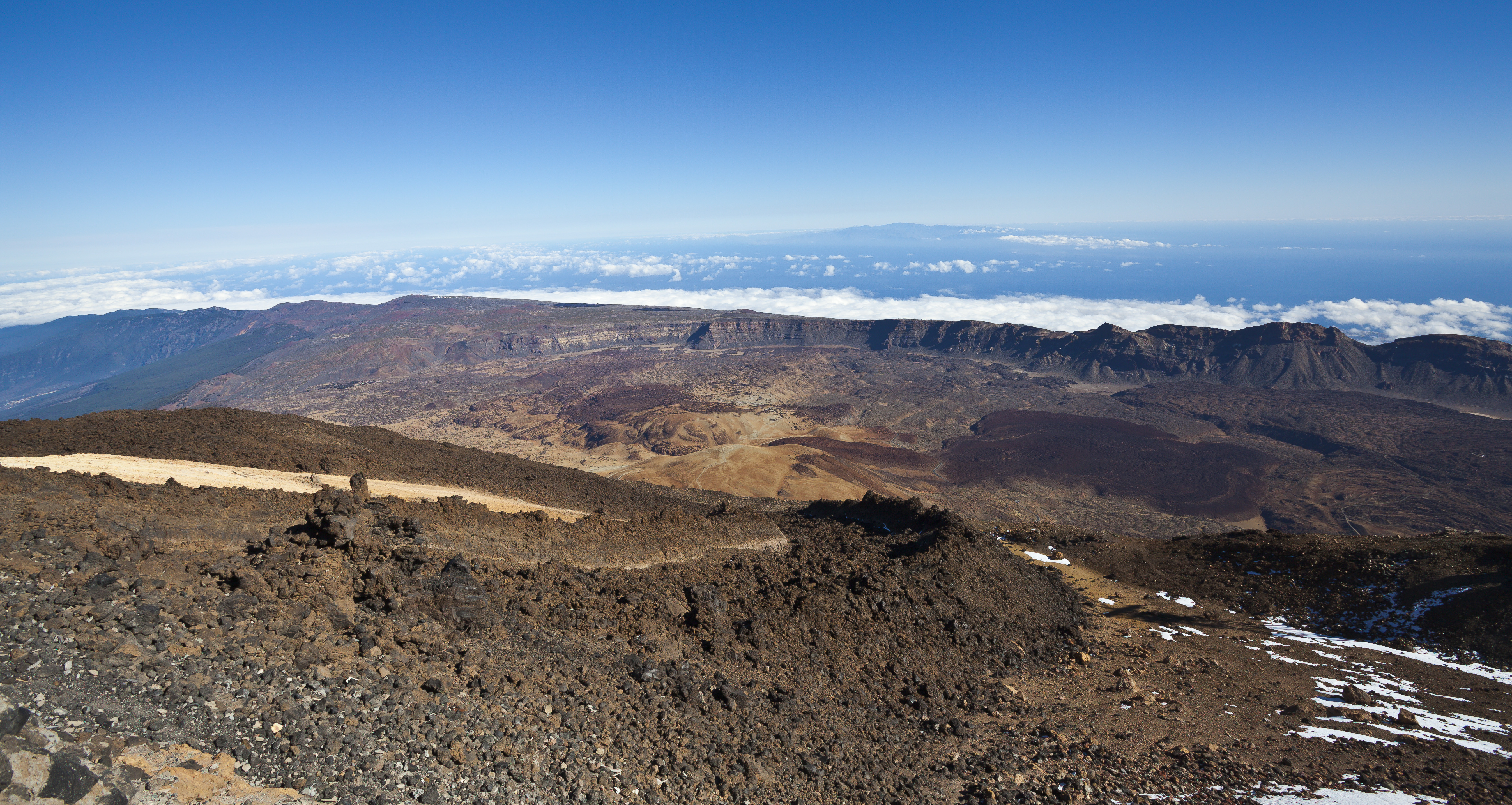 Caldera de las Cañadas, National Park of Teide, Santa Cruz de Tenerife, Spain